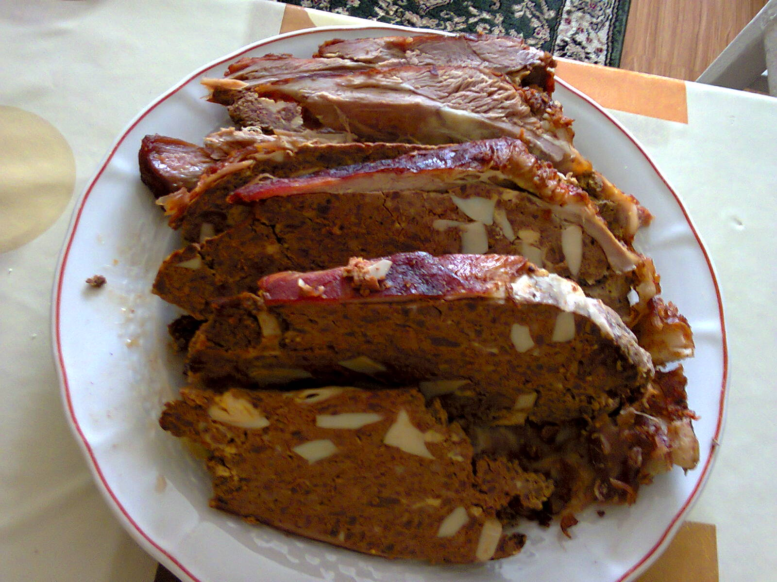 Sliced stuffed lamb in Lónyaytelep, Transylvania.